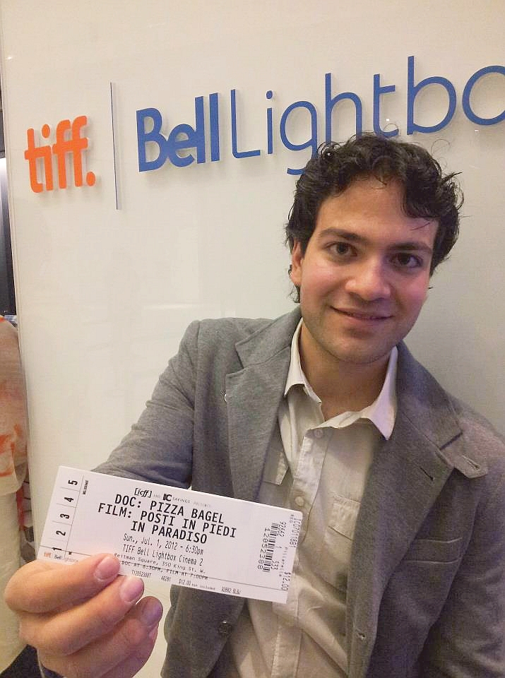 Michael Pillarella on July 1, 2012 at the TIFF Bell Lightbox Cinema, TIFF Bell Lightbox & Festival Tower, Reitman Square, 350 Kings Street West, Toronto, Ontario, Canada.